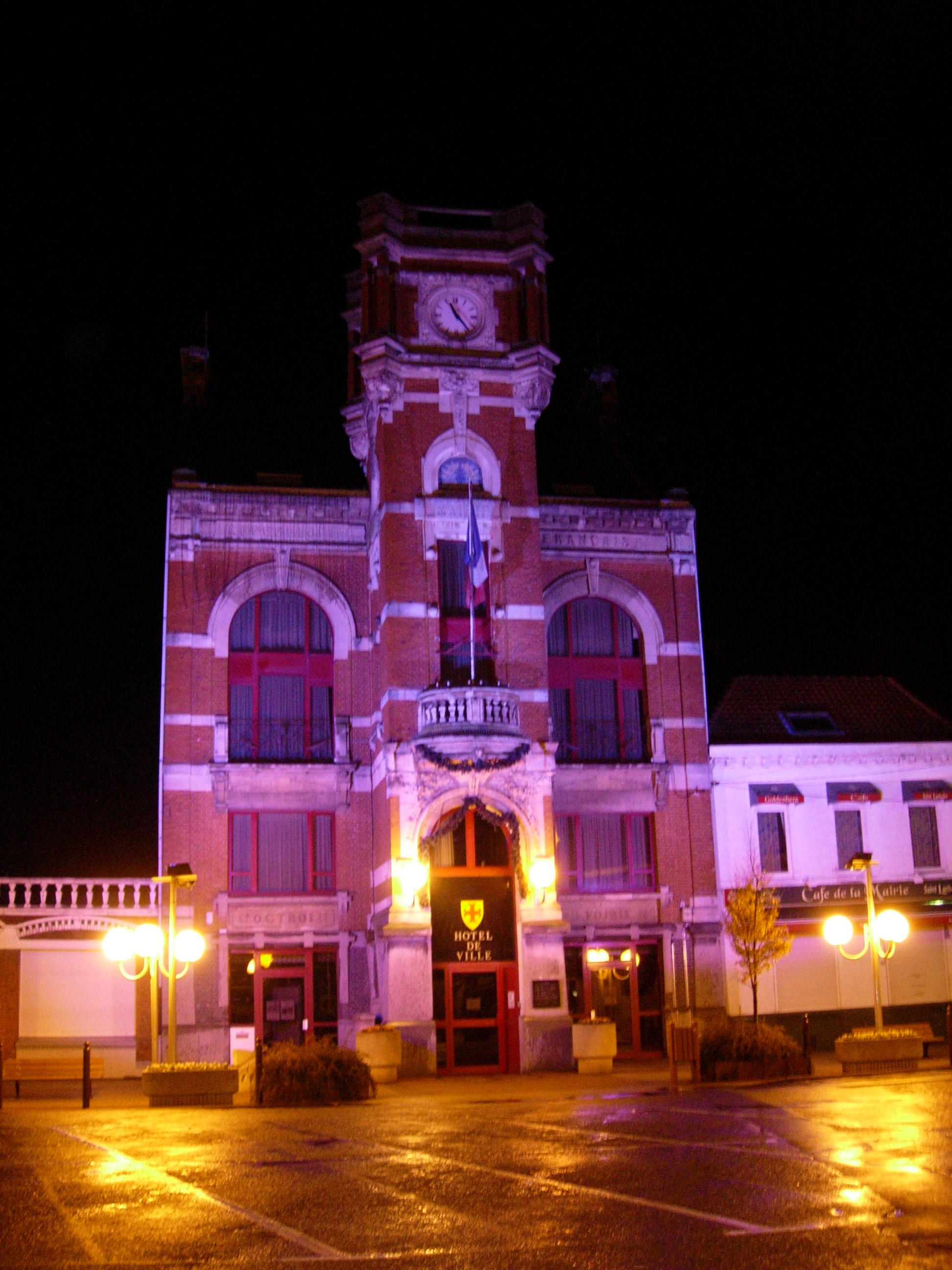 Annoeullin, town hall, during night